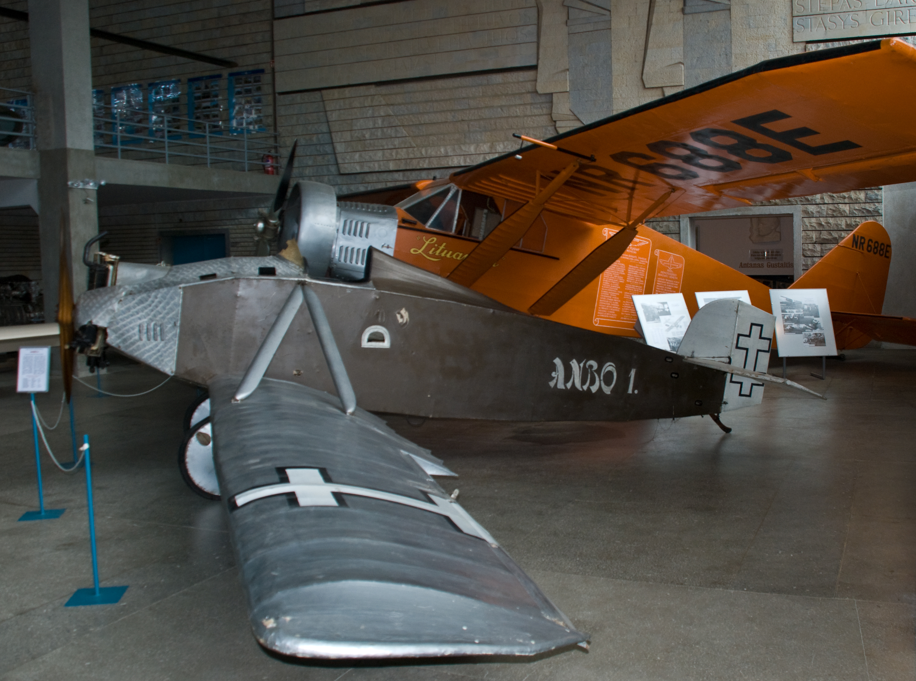 ANBO 1, Lithuania Aviation Museum, Kaunas, 12 Sept. 2008